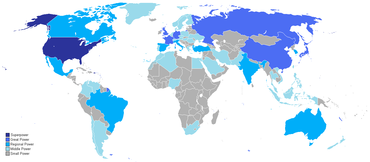 Powers in international relations Superpower Great powers Regional powers Middle powers